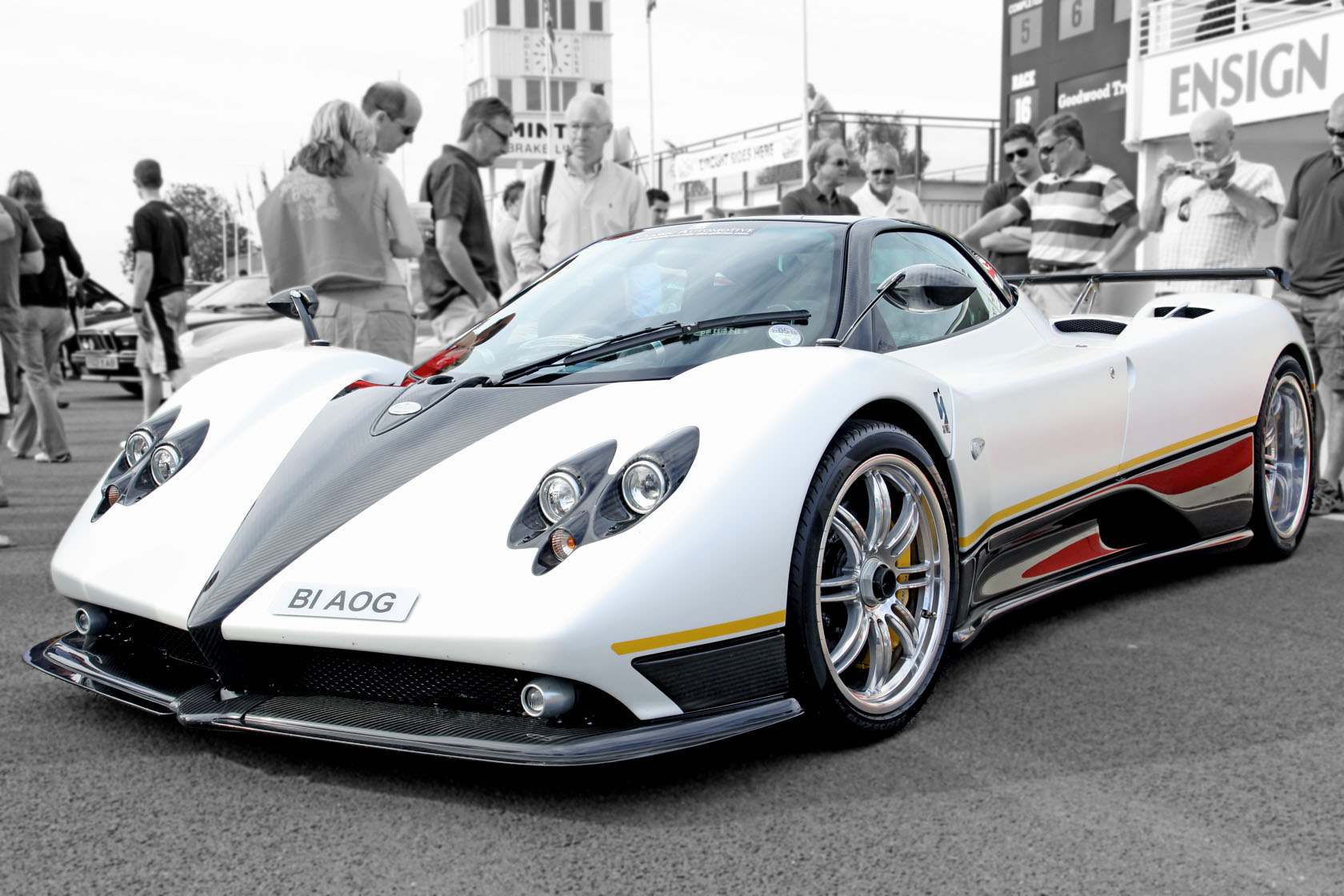 Pagani Zonda PS (Peter Saywell) from the front at Goodwood breakfast club meeting